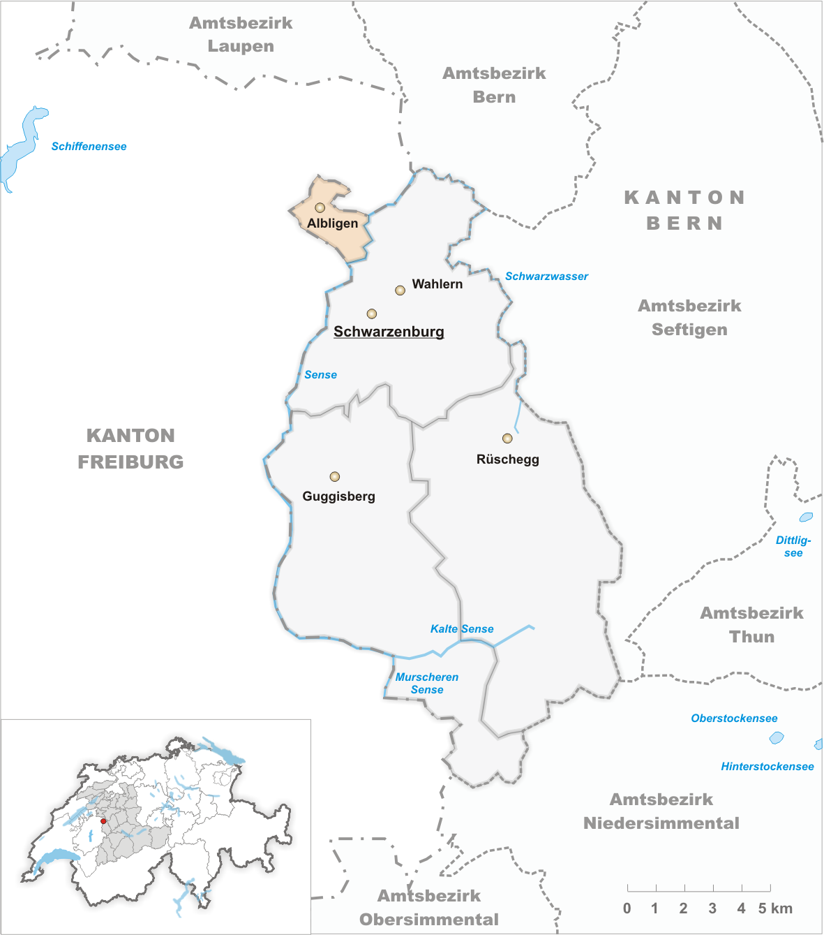 Municipality Albligen